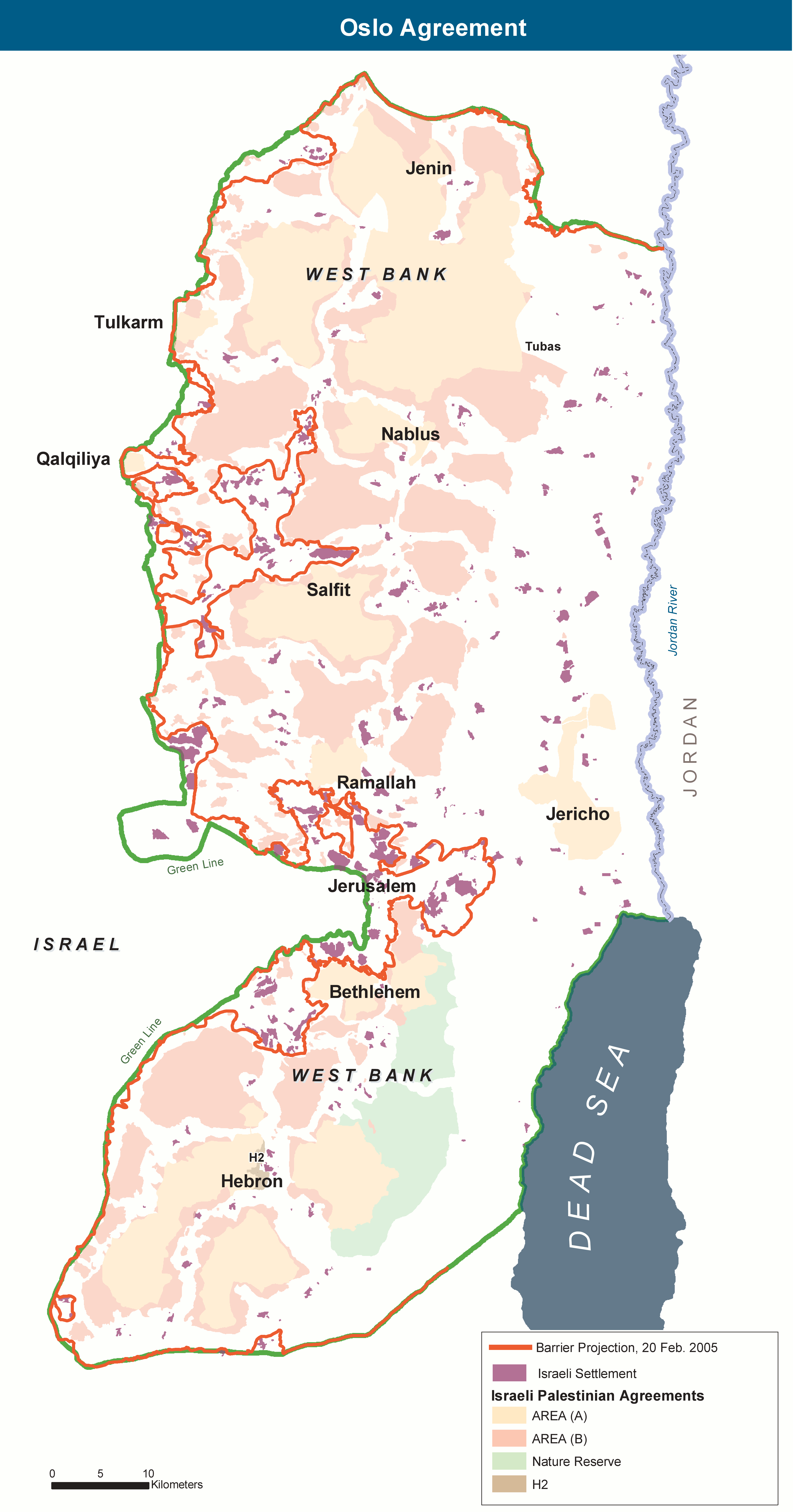 The Areas of the West Bank, created by the Oslo II Accord of 1995, and the Israeli Wall project as of 20 February 2005.